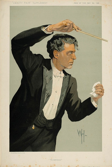 Caricature of Italian composer and conductor Pietro Mascagni. Caption read "The Intermezzo".